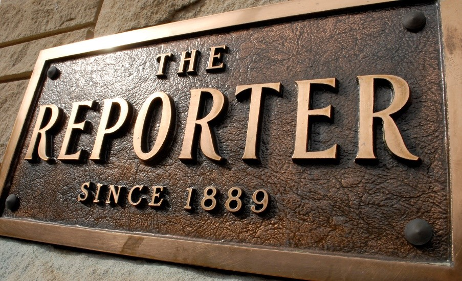 Plague outside of the Reporter-Times